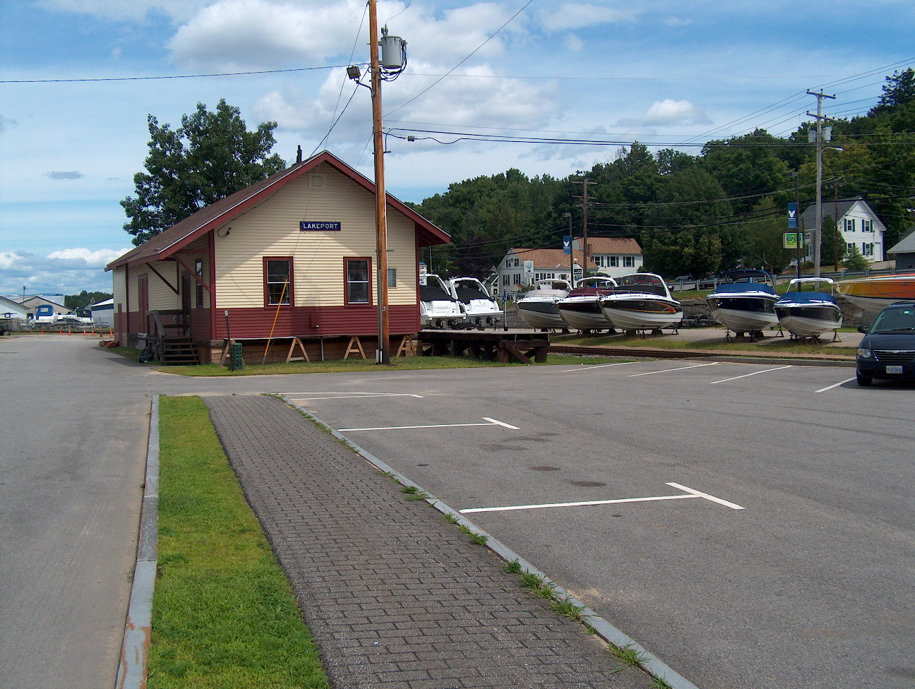 Old train station in Lakeport, New Hampshire. Photo by Ken Gallager.